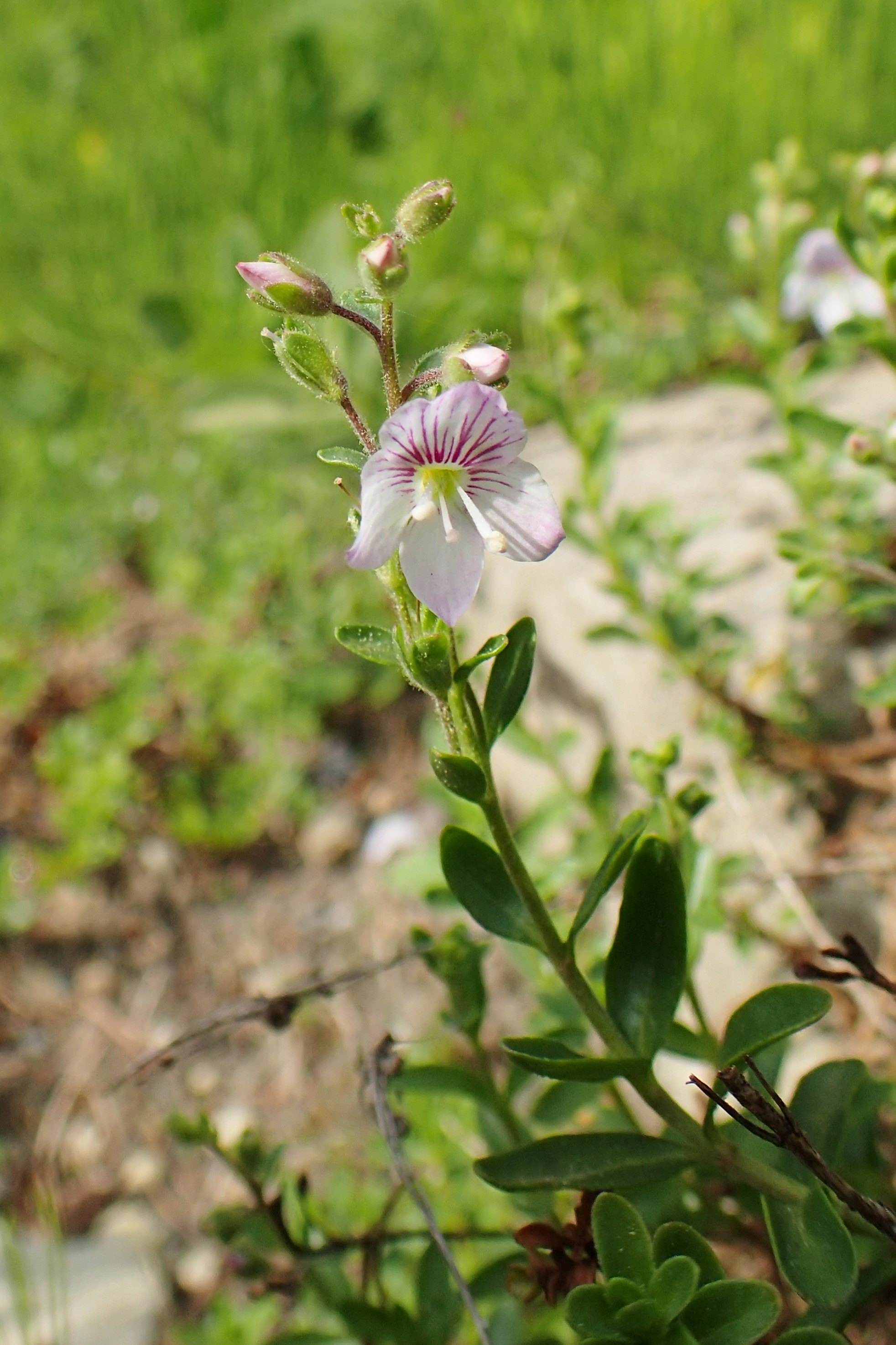 Veronica fruticulosa in the Botanischer Garten, Berlin-Dahlem